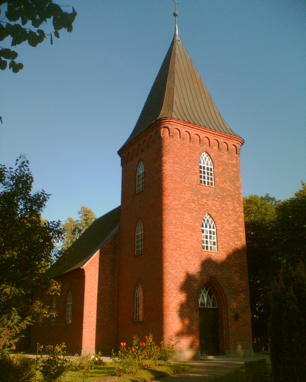 Hohenstein church next to B 202